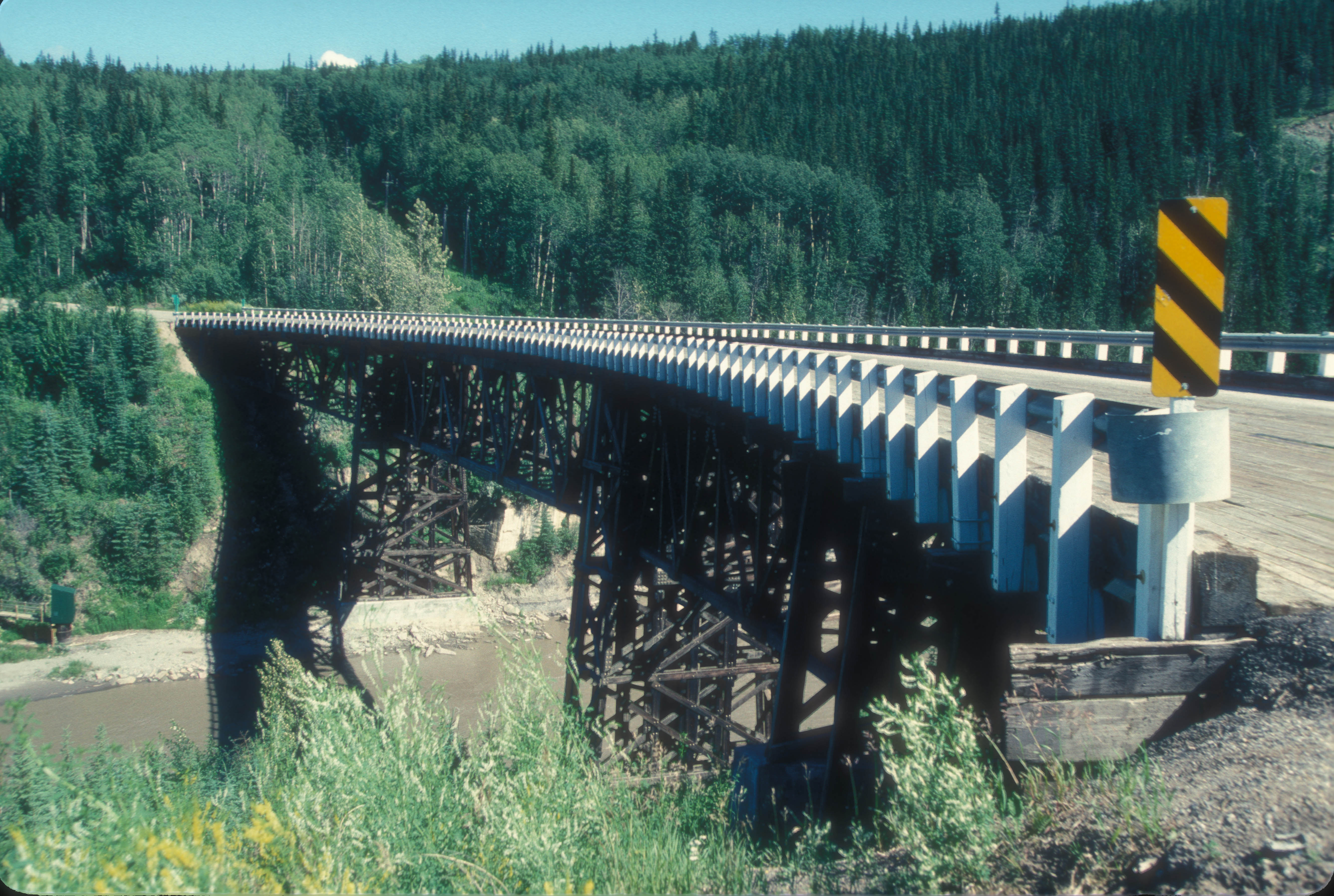 LAST WOODEN BRIDGE REMAINING ON THE ALASKAN HIGHWAY; WAS BYPASSED. THE BRIDGE WAS BUILT DURING THE SECOND WORLD WAR, WHEN THE ALASKA HIGHWAY WAS STARTED. DUE TO A HAIRPIN CURVE, THE BRIDGE, WHICH TOOK NINE MONTHS TO BE COMPLETED, WAS CONSTRUCTED IN A CURVED SHAPE.